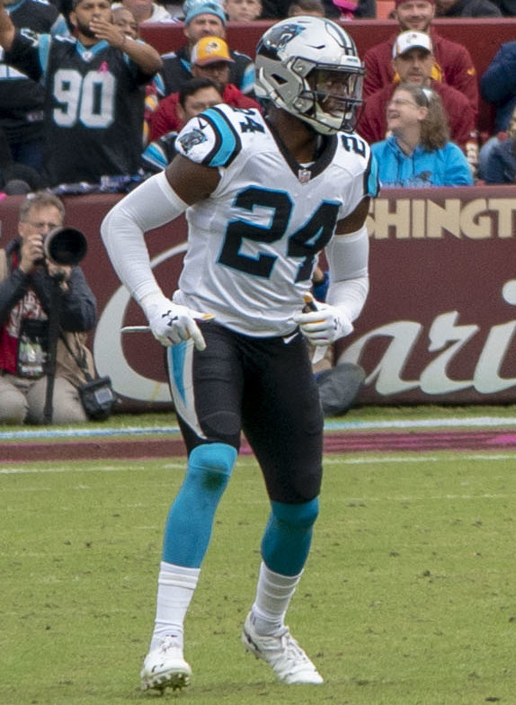 Dustin Hopkins of the Washington Redskins kicks a field goal against the Carolina Panthers during a 2018 game at FedEx Field